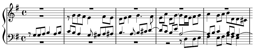 First bars of the chorale "Wen wir in hoechsten Noethen" from "The Art of Fugue" BWV 1080 by Johann Sebastian Bach. Sheet music created with MuseScore software.